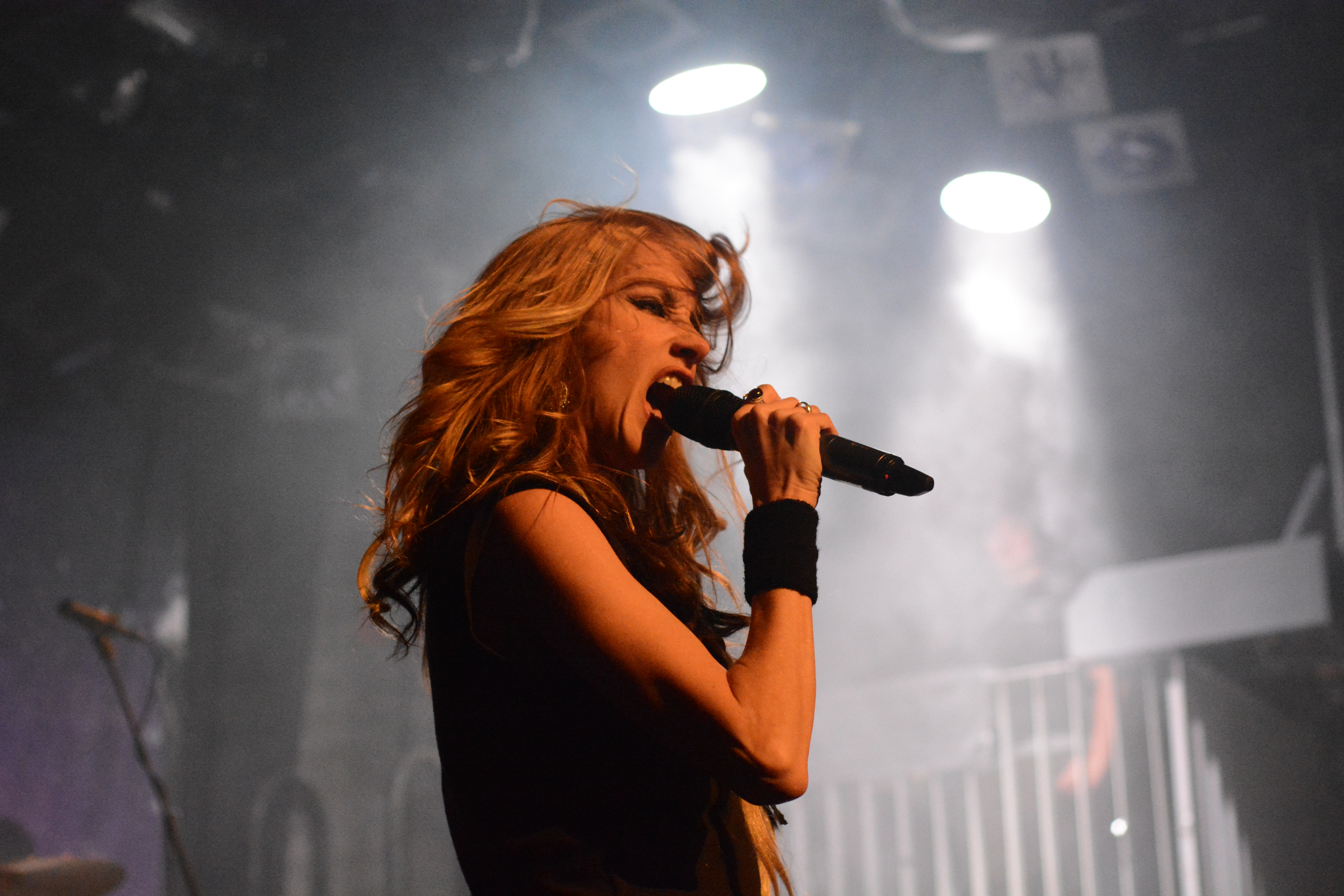 Huntress in concert